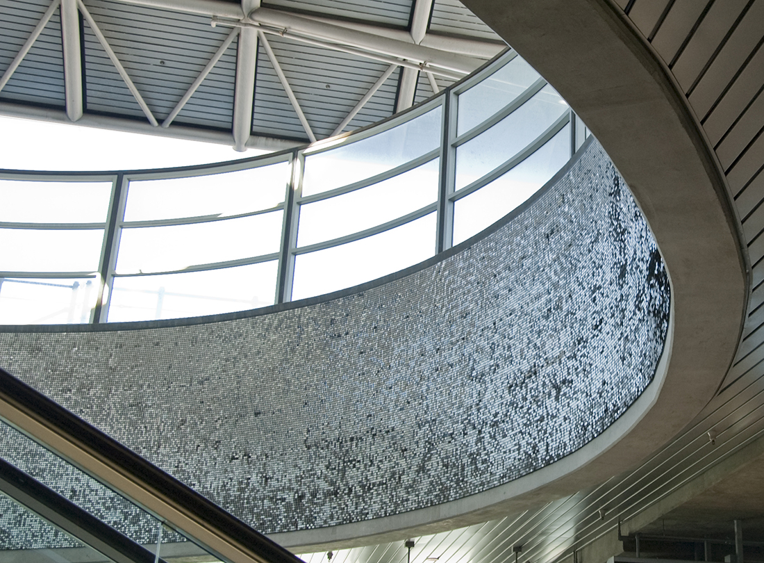 Wind Portal, an artwork by Ned Kahn, located in San Francisco International Airport station